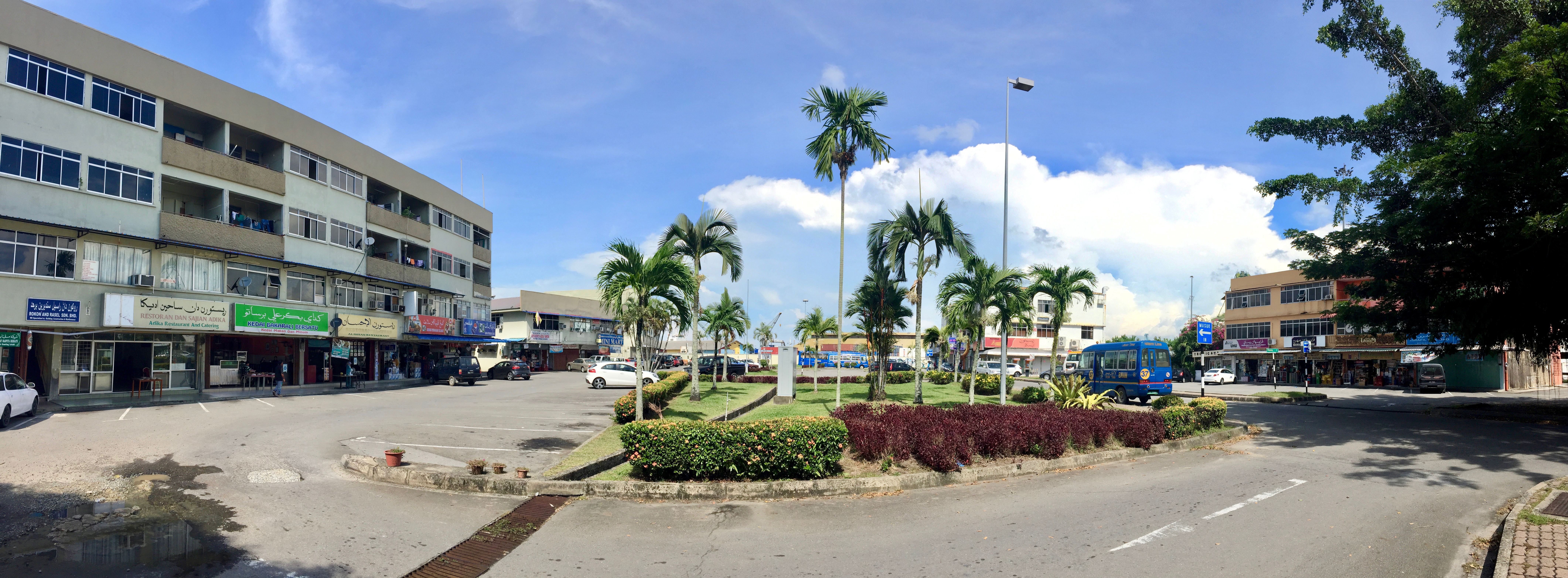 Old commercial area of Muara Town. Taken on 20 May 2018.